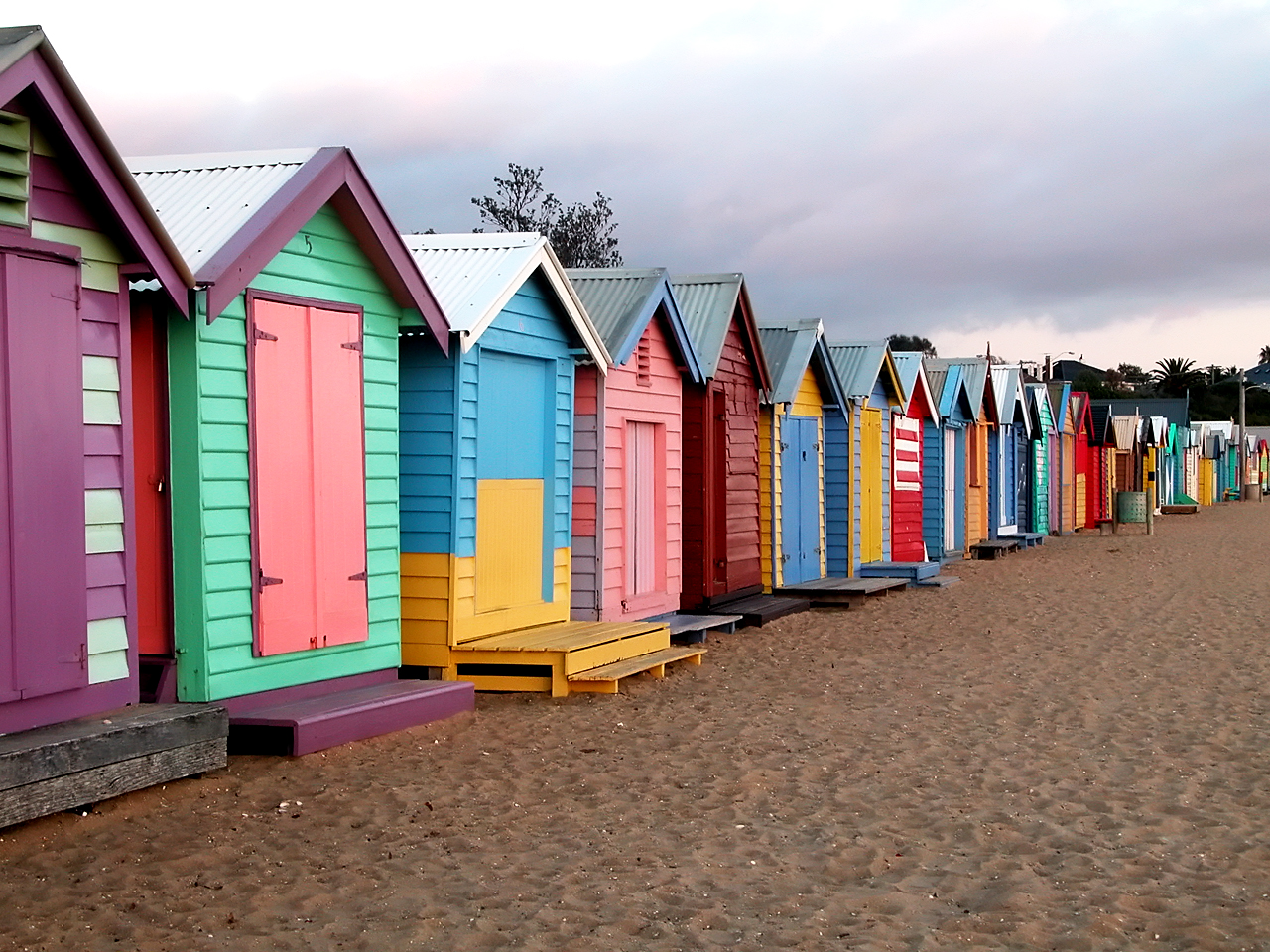 2003, Melbourne's famous beach. Just after the rain storm.